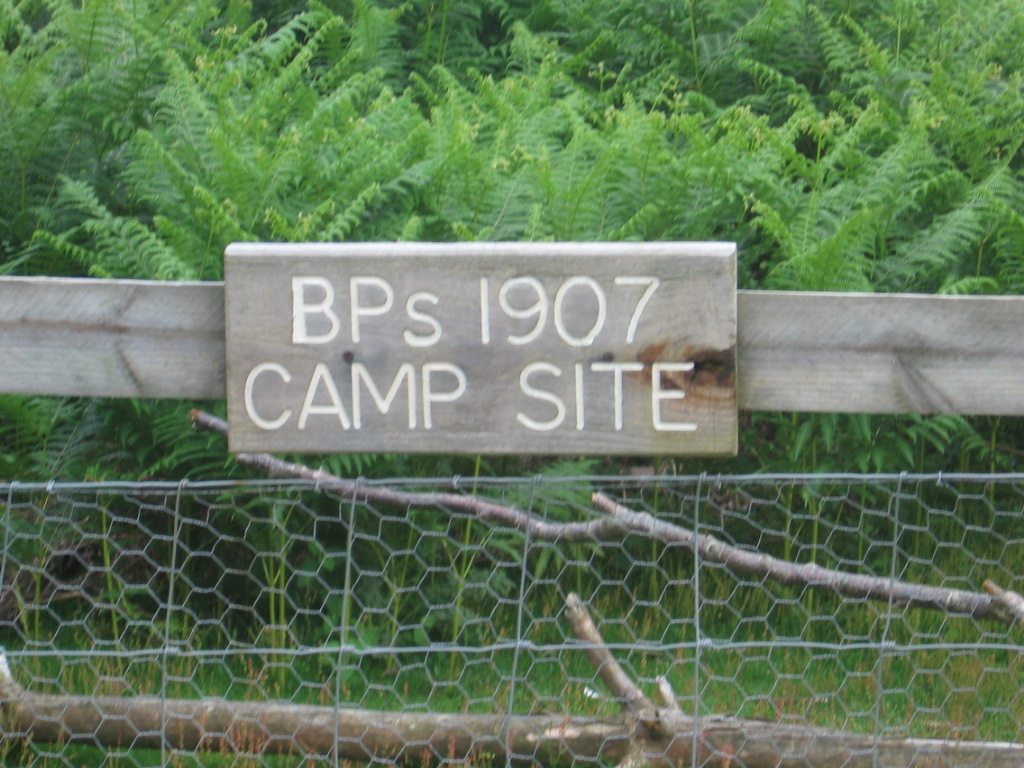 The sign on Brownsea Island, marking the campsite